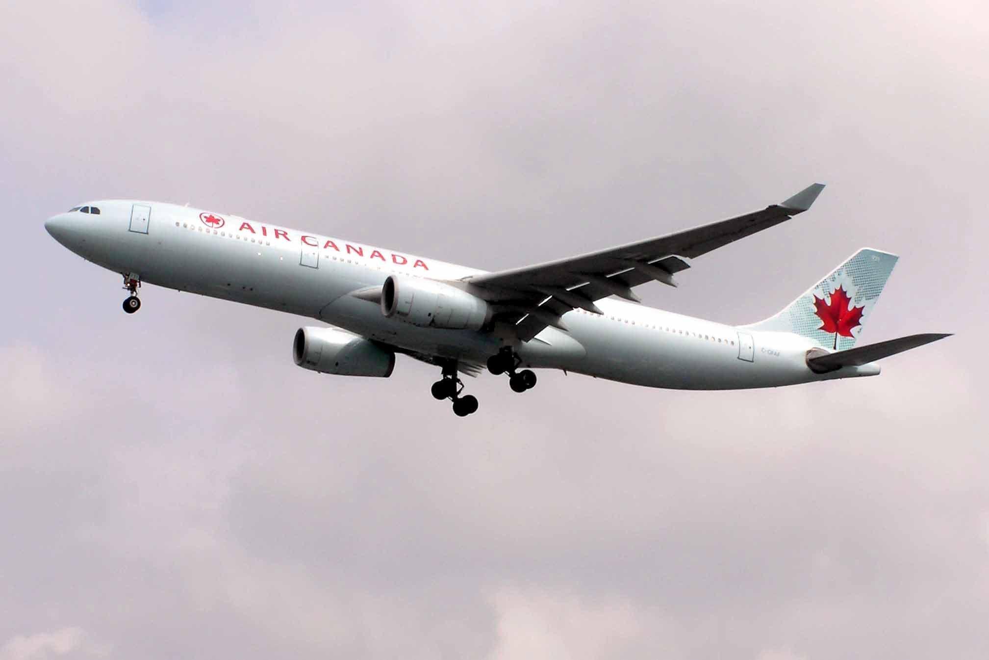 Air Canada Airbus A330-300 (registration C-CFAF) landing at London Heathrow Airport.